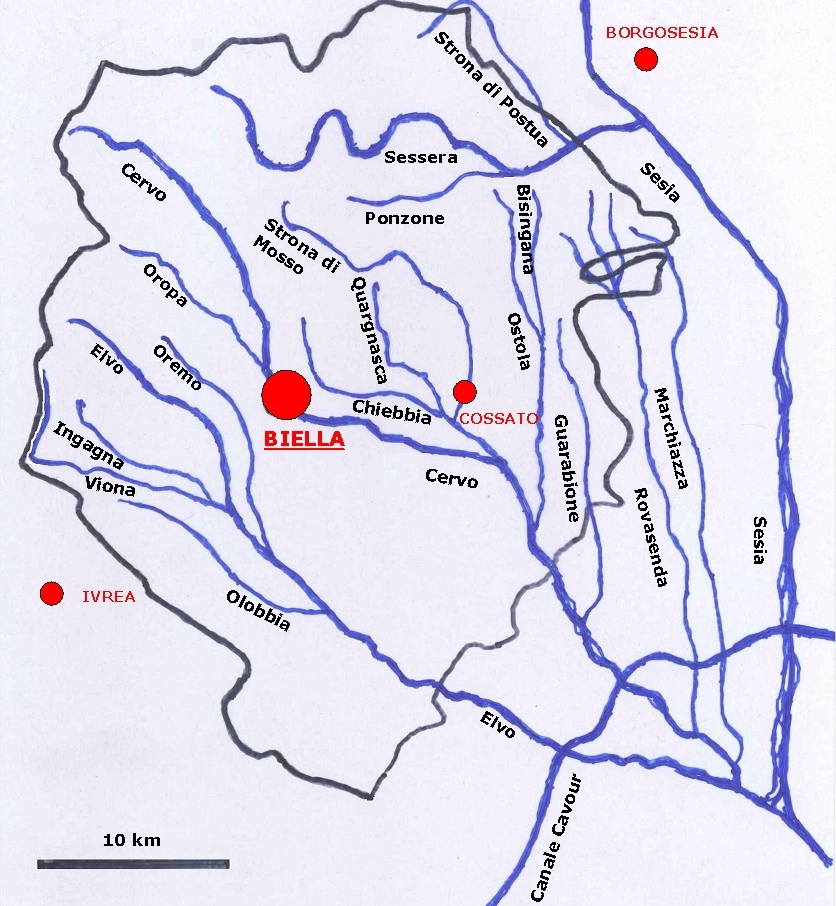 Province of Biella (Italy): hydrography scheme